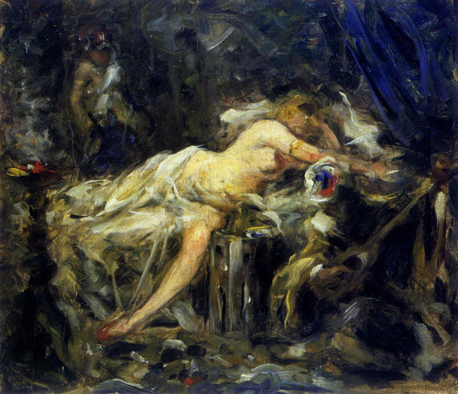 Sketch for the unfinished Harem, around 1903.